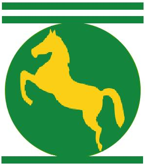 Coat of arms of Sharqia Govenorate